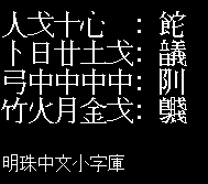 Demonstration of Mingzhu, a Canjie character generator that runs on MS Windows. It demonstrates the system's capability of generating the characters according to the codes. Non of the examples are included in Unicode. The first character is "[飠它]", a character for a kind of soup in Xuzhou. The rest are never recorded. Softwar link in Chinese